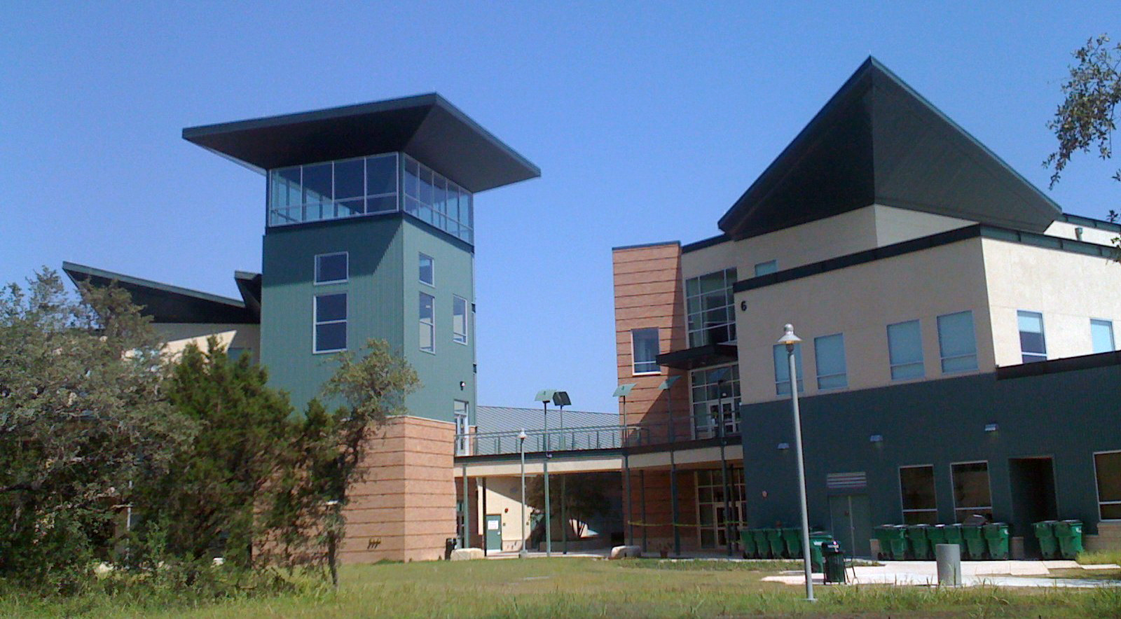 Juniper Hall, Northwest Vista College, Texas